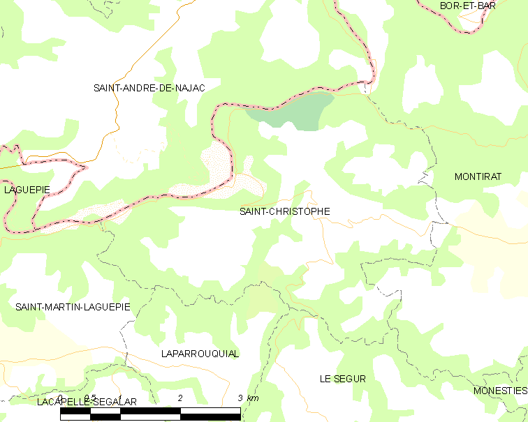 Map of French municipality Saint-Christophe